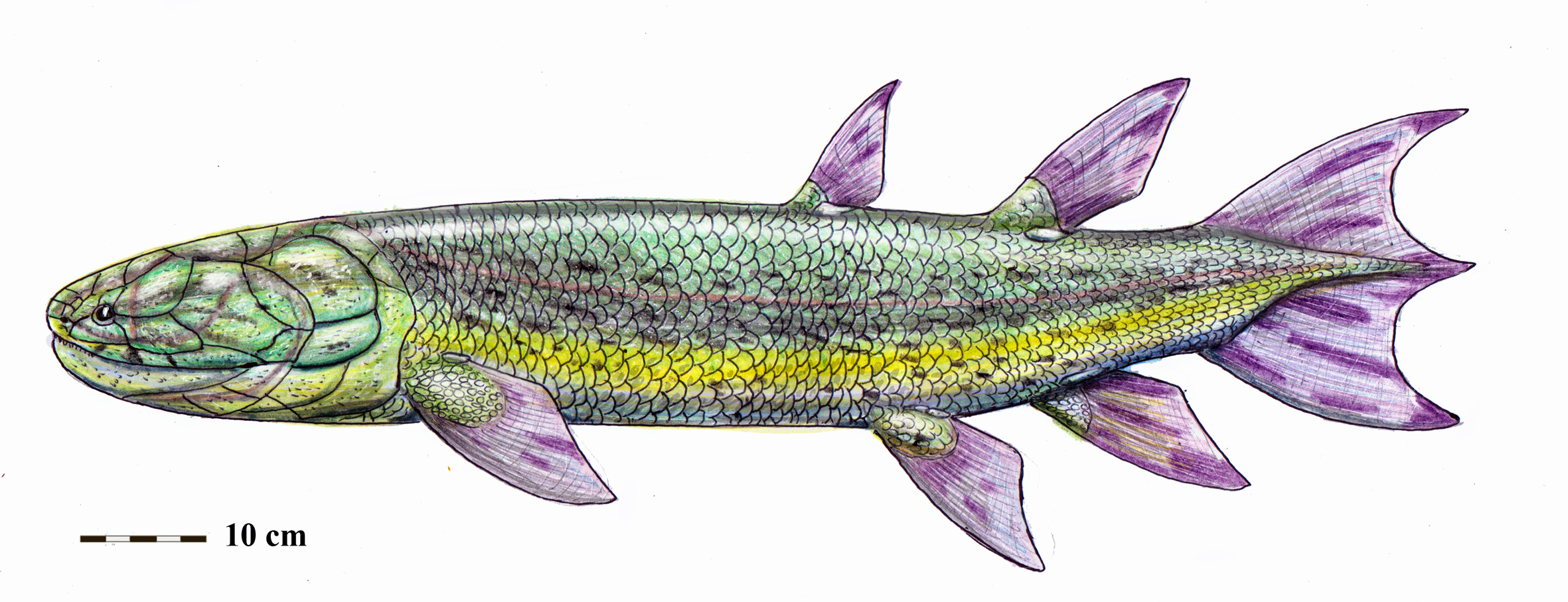 Jarvikina wenjukovi, tristichopterid sauropterygian from Late Devonian of European Russia